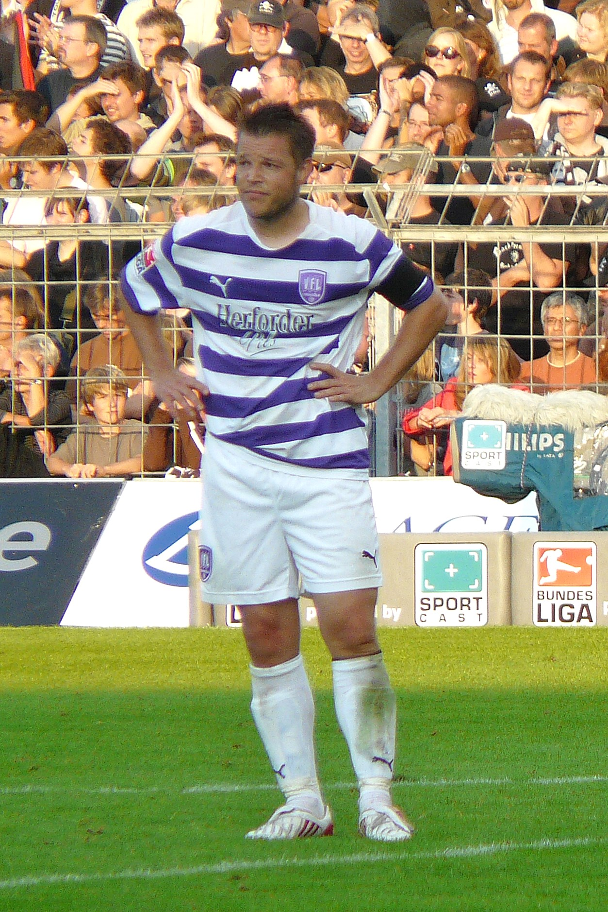 Thomas Reichenberger as Player from VfL Osnabrück